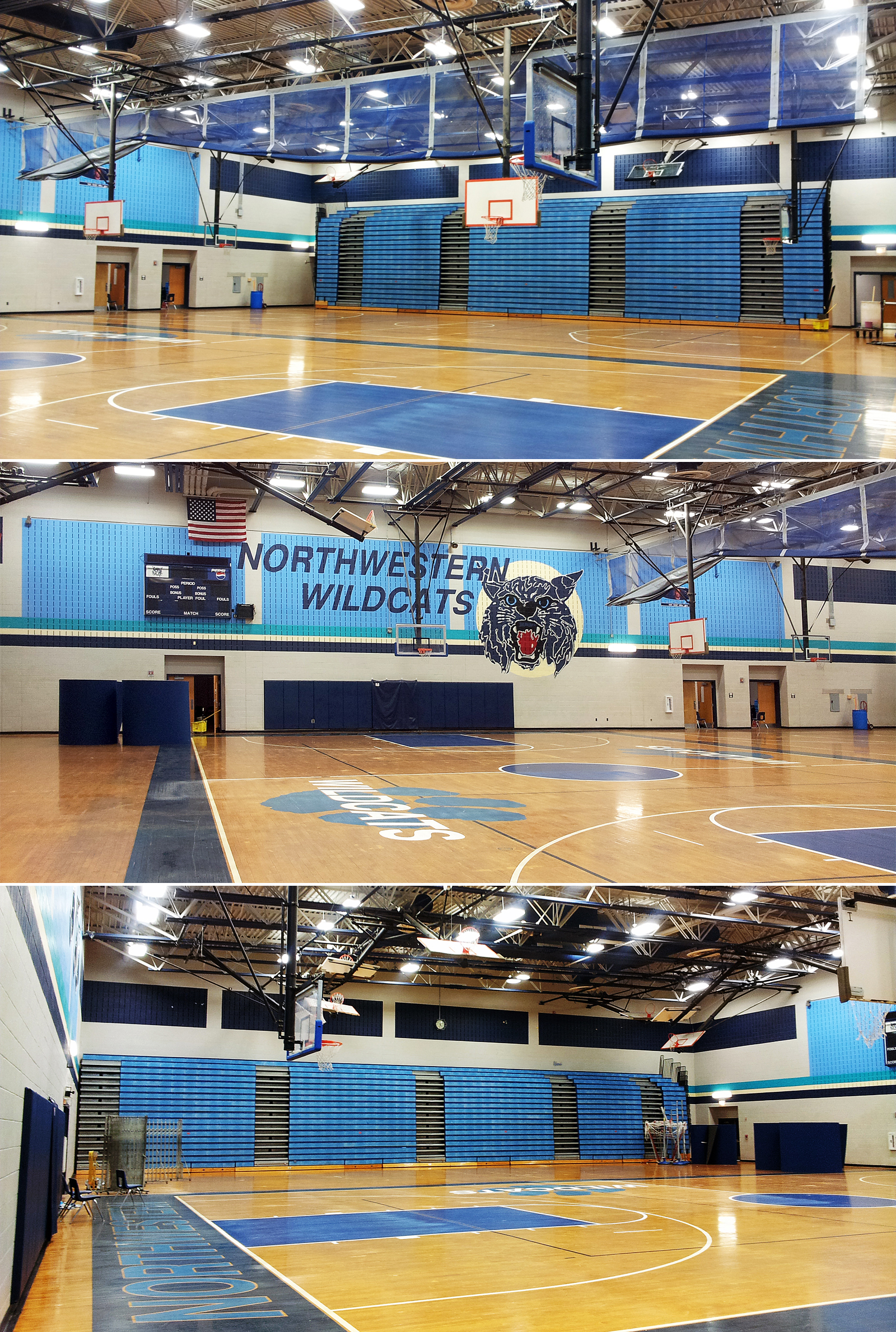 A set of images showing the entire Northwestern High School gymnasium from right-to-left.